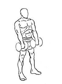 an exercise of biceps